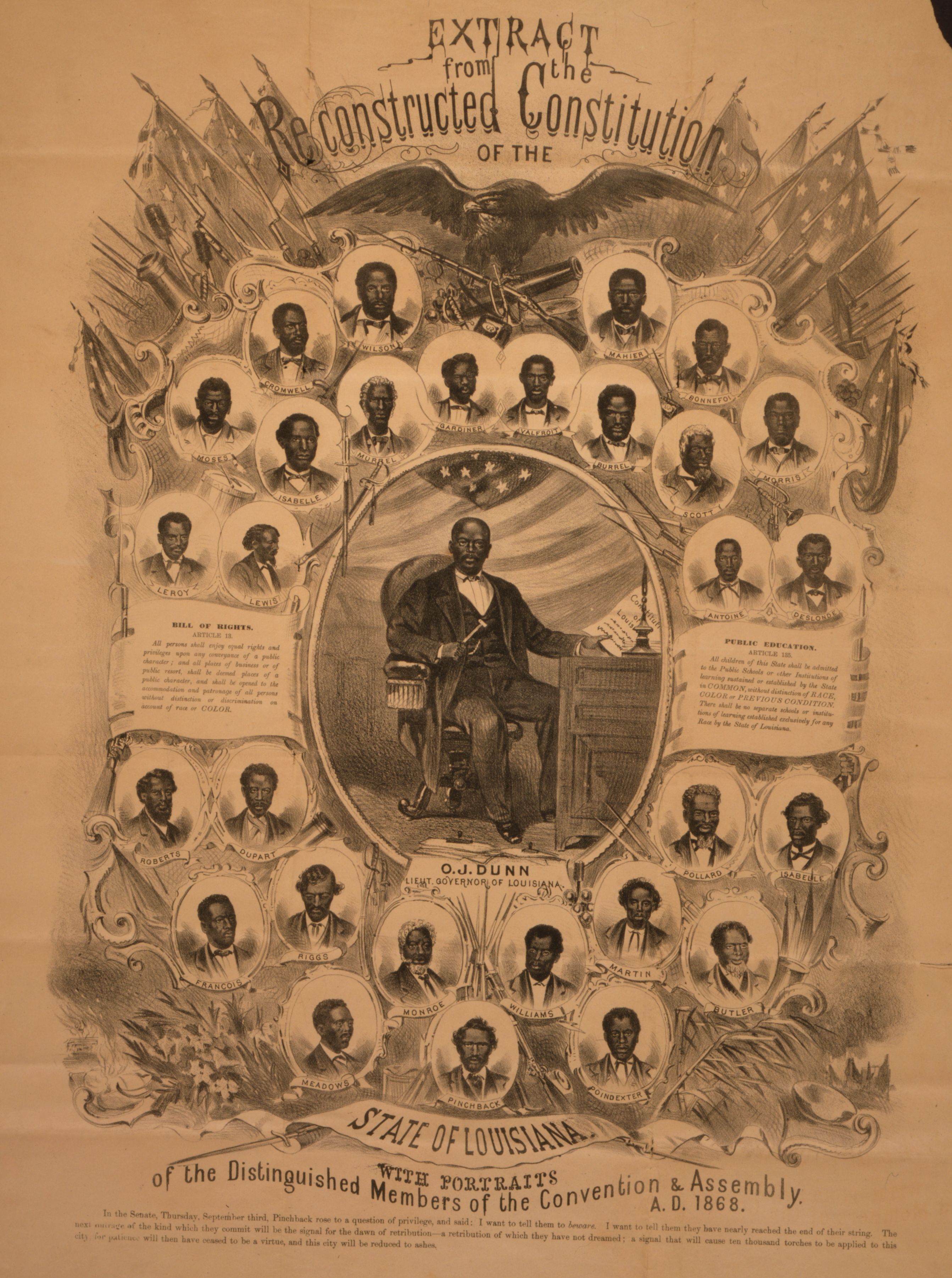 Lt. Governor of Louisiana Oscar Dunn (1820?-1871). "Extract from the reconstructed Constitution of the state of Louisiana, with portraits of the distinguished members of the Convention & Assembly, A.D. 1868." Includes full-length portrait of Oscar J. Dunn, Lieut. Governor of Louisiana, seated at desk, and twenty-nine head-and-shoulders portraits of African American delegates to the Louisiana Constitutional Convention. Note small portrait of P.B.S. Pinchback, later Governor, at bottom center; see also Image:PinchbackReconstructed1868.gif extracted from same original source.